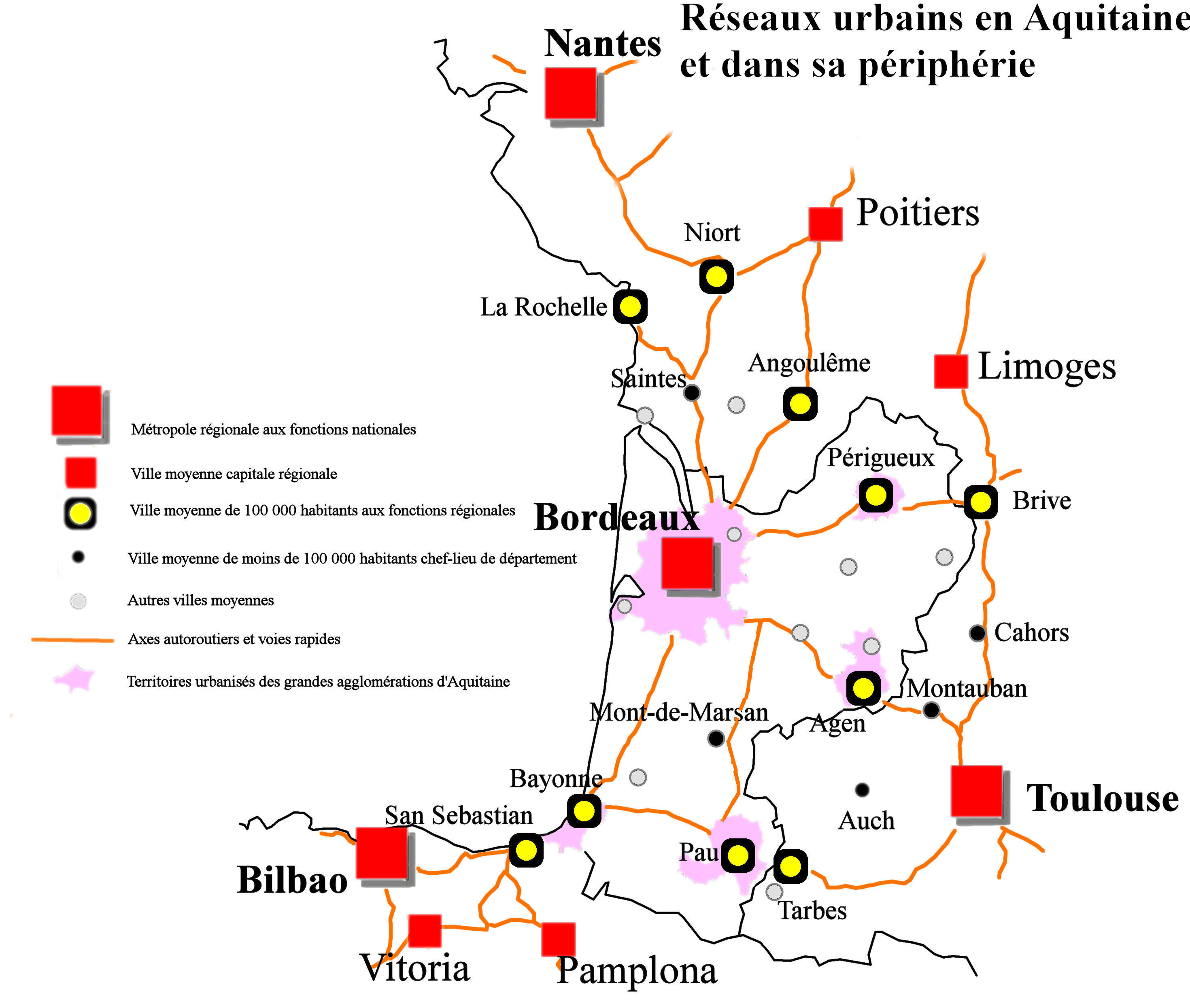 Networks of cities in Aquitaine and in its immediate periphery